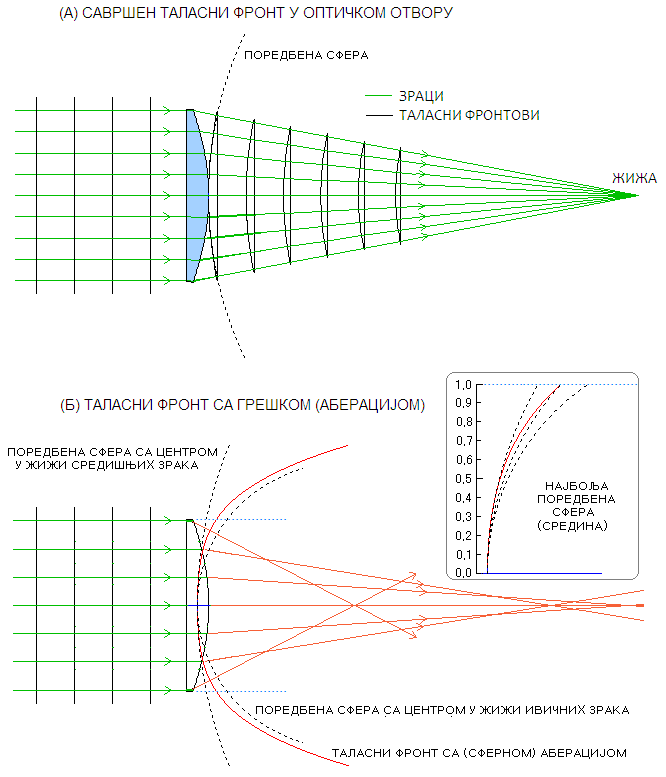 ОПТИЧКИ ЗРАЦИ И ТАЛАСНИ ФРОНТ